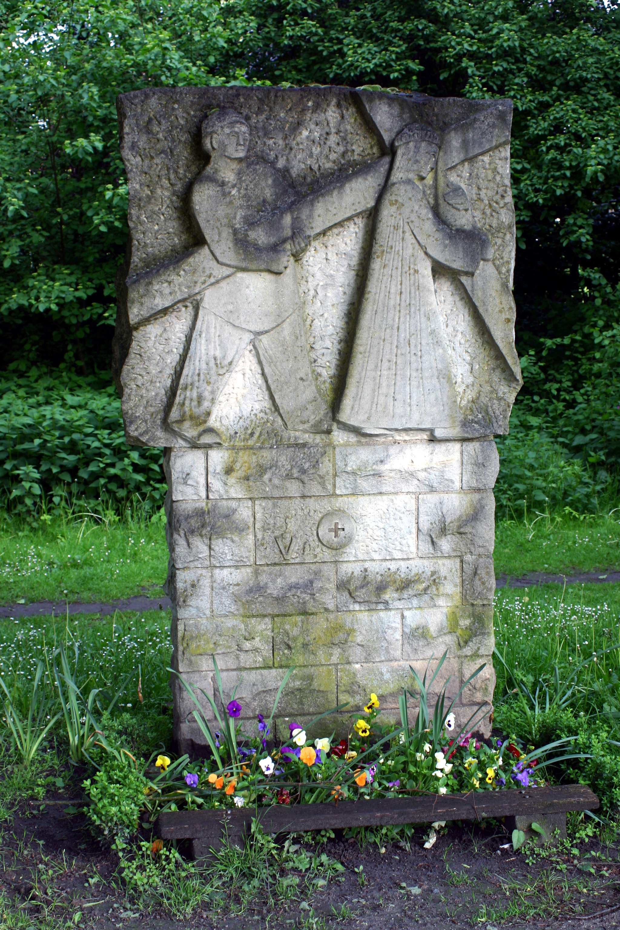 Simon of Cyrene is made to bear the cross